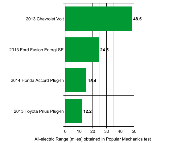 Graph showing distance that four tested 2013 or 2014 model year plug-in hybrid-electric vehicles could drive in their all-electric mode as tested by Popular Mechanics magazine.